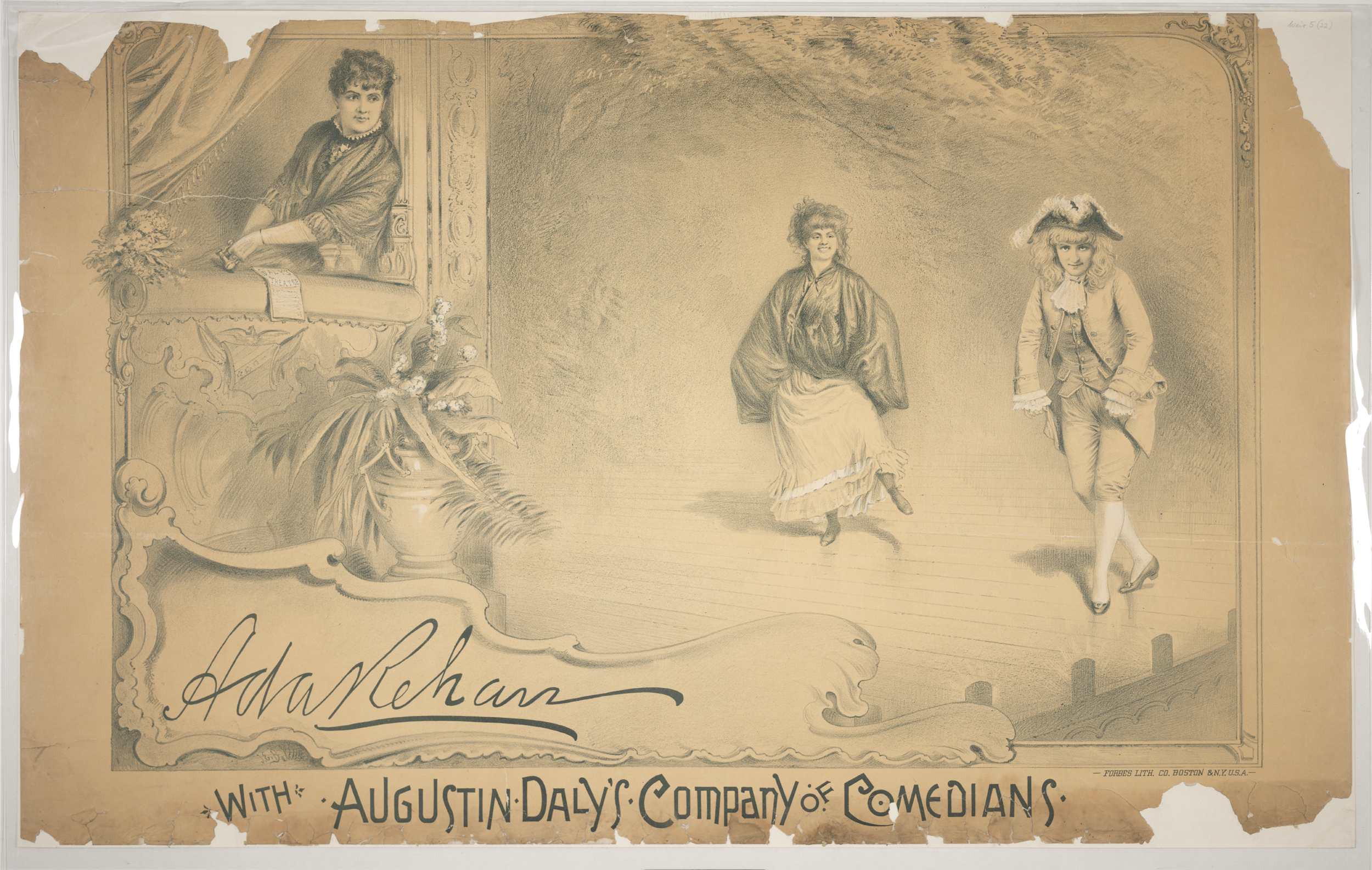 With Augustin Daly's Company of Comedians. Printed by Forbes Lithographer Co., Boston & N[ew] Y[ork], U[nited] [tates] [of] A[merica].